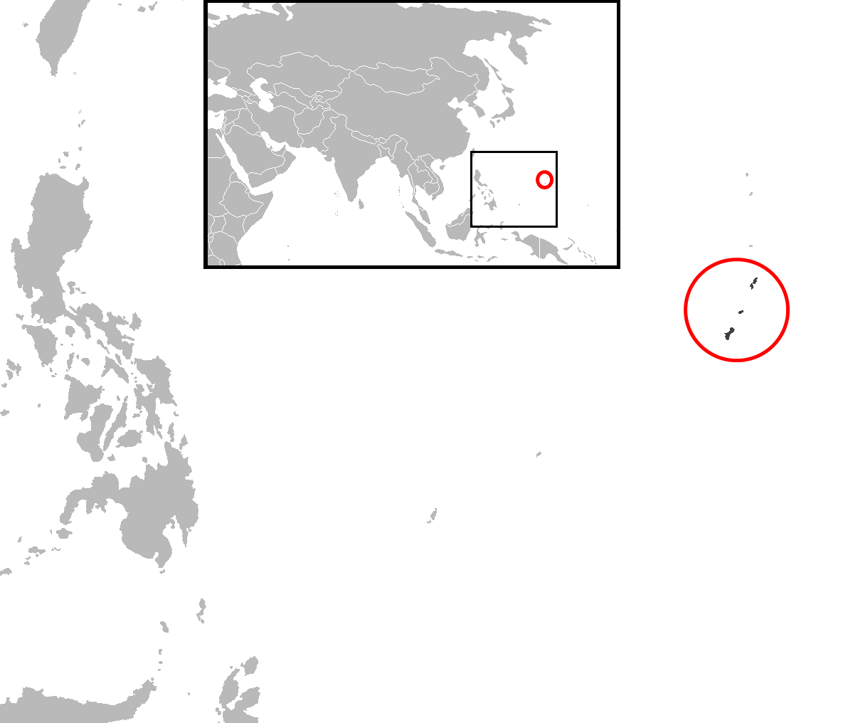 Distribution map of the Mariana Mallard, Anas oustaleti. This species is extinct; its former distribution is marked in dark grey. Inset shows position of map in the world.